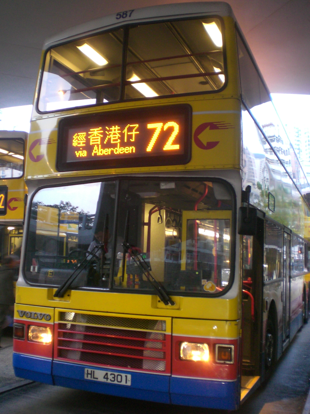 Citybus terminus, Moreton Terrace, Tai Hang, Causeway Bay, Hong Kong.